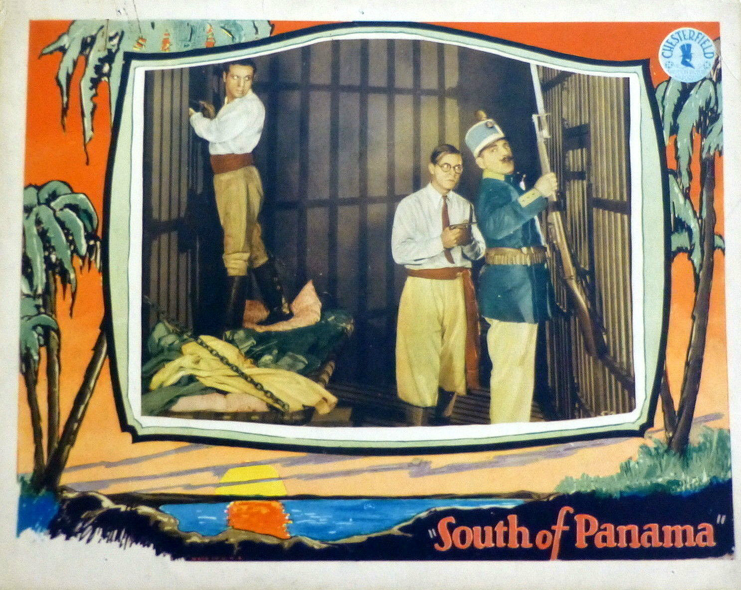 Lobby card for the American drama film South of Panama (1928) with Edward Raquello, Lewis Sargent, and Fred Walton (1865 – 1936).